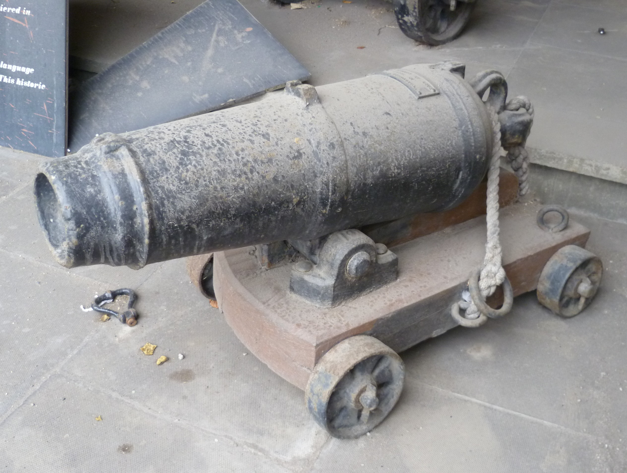 An old carronade, part of a now neglected display in the archway of the old clocktower of the Carron Works.